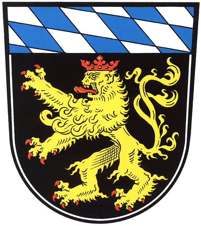 Coat of Arms of Upper Bavaria